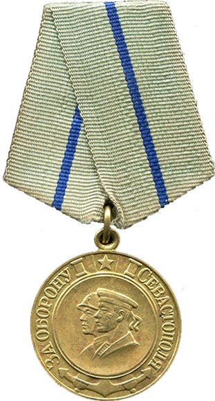 Medal za oboronu Sevastopola - Medal for the defence of Sevastopol - Soviet WWII military award.